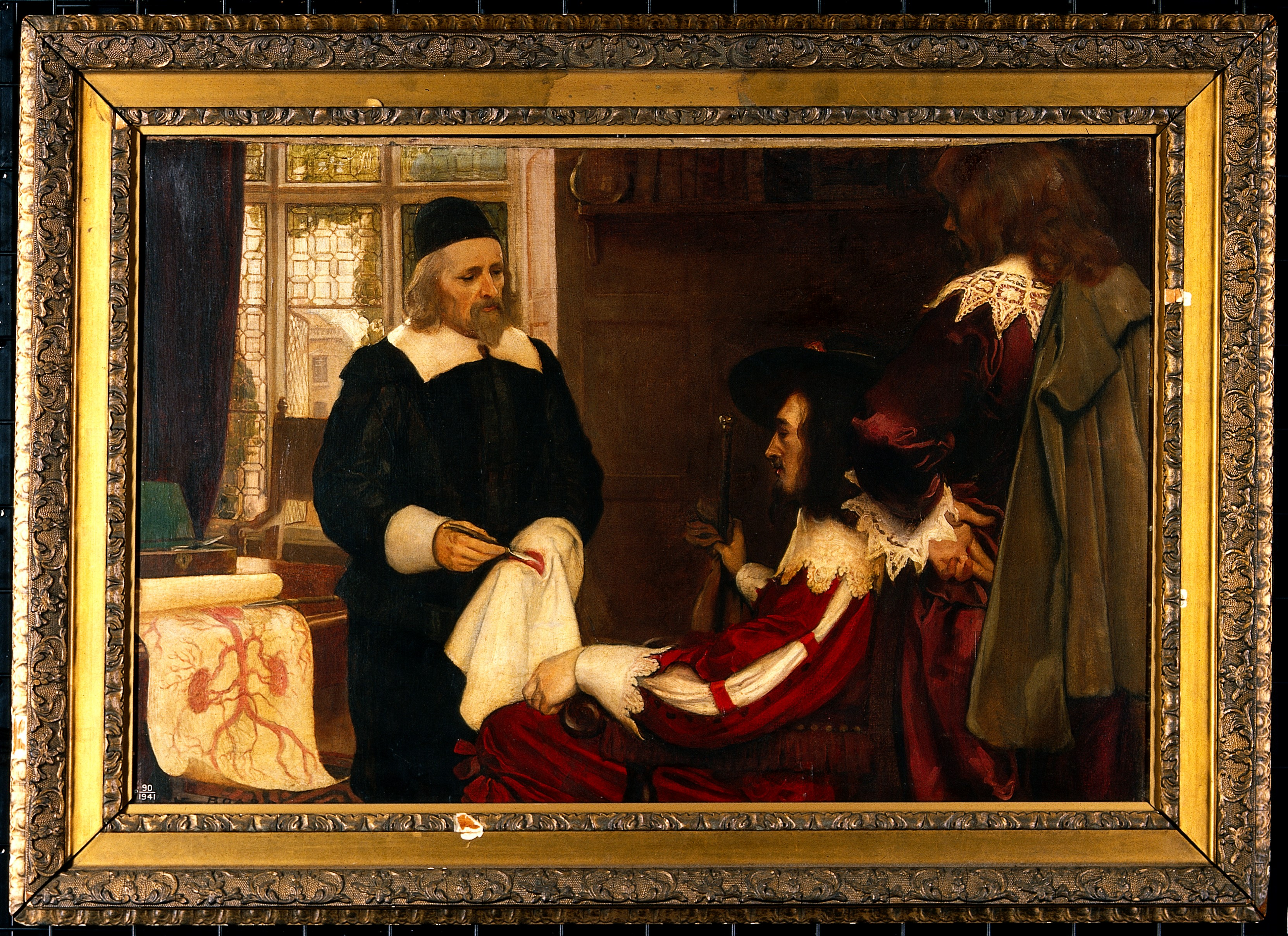 William Harvey demonstrating his theory of circulation of the blood before Charles I. Iconographic Collections Keywords: Ernest Board; William Harvey; CIRCULATION; Cardiology; name I,; charles i; harvey, william